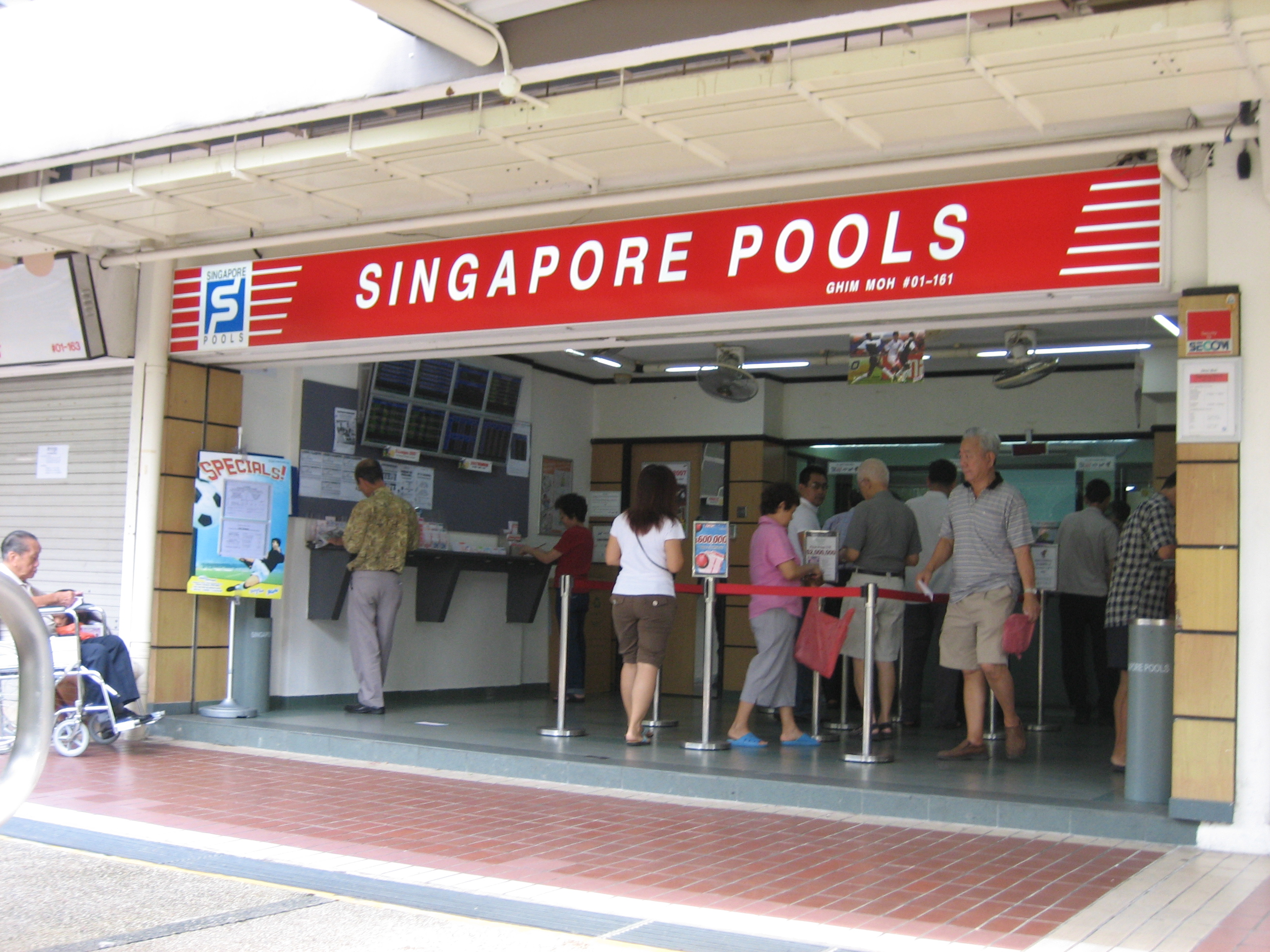 A Singapore Pools outlet in Ghim Moh, Singapore.